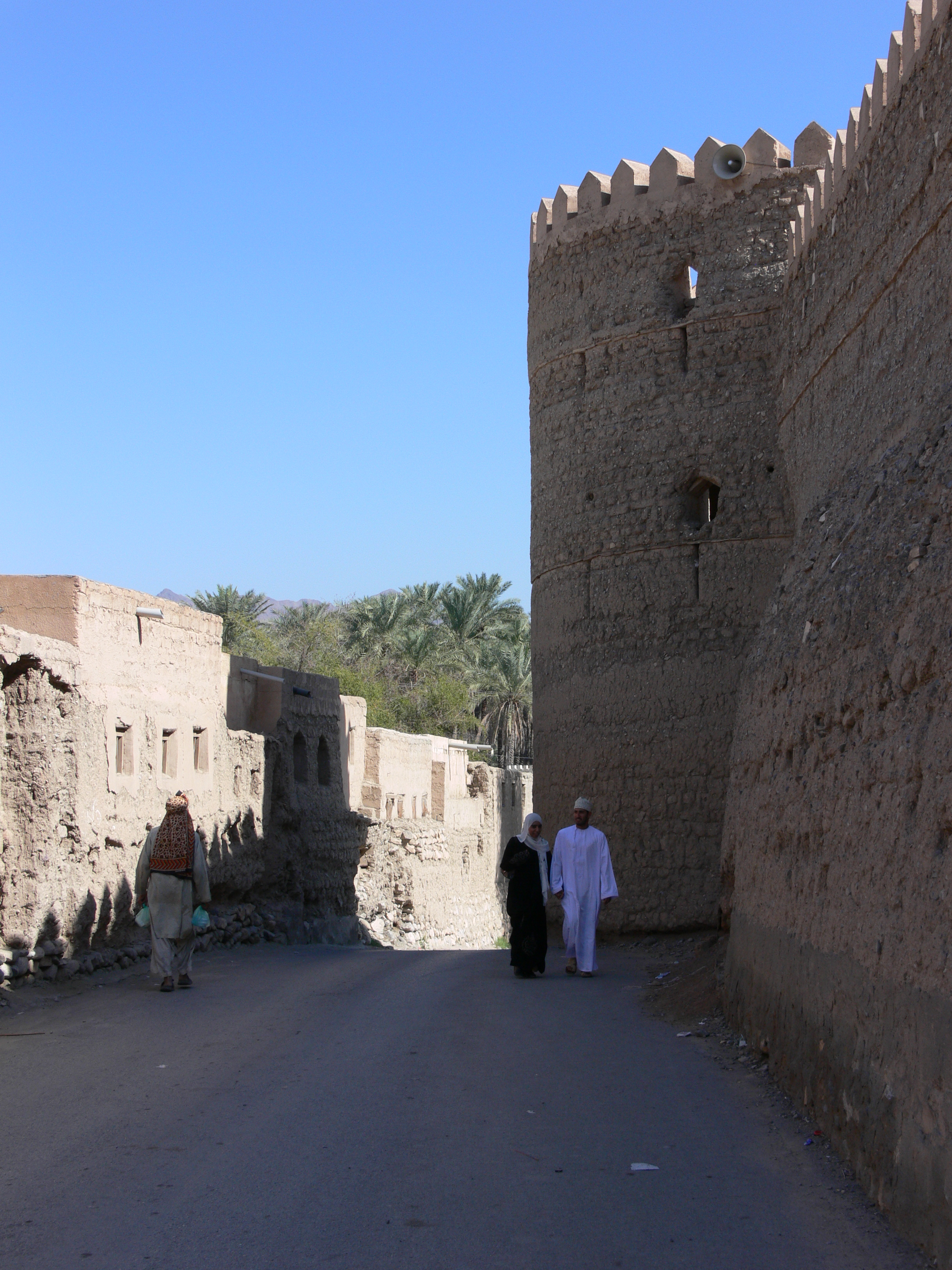 Rustaq Fort